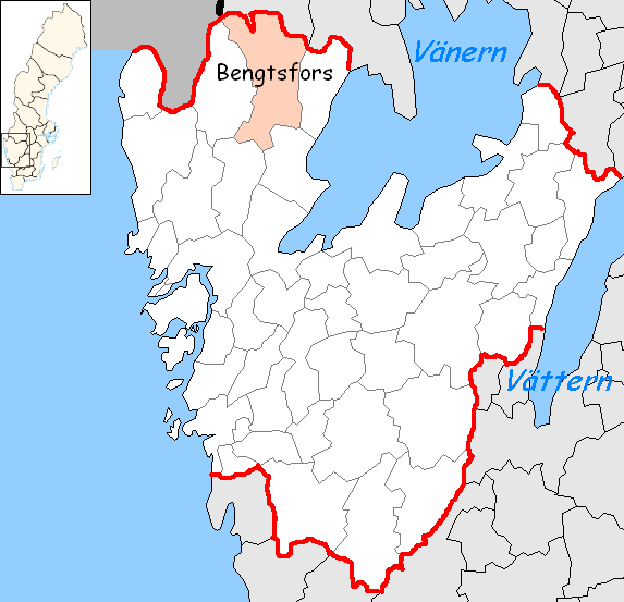 Bengtsfors Municipality in Västra Götaland County Designed by me. Mere outlines are a PD source from